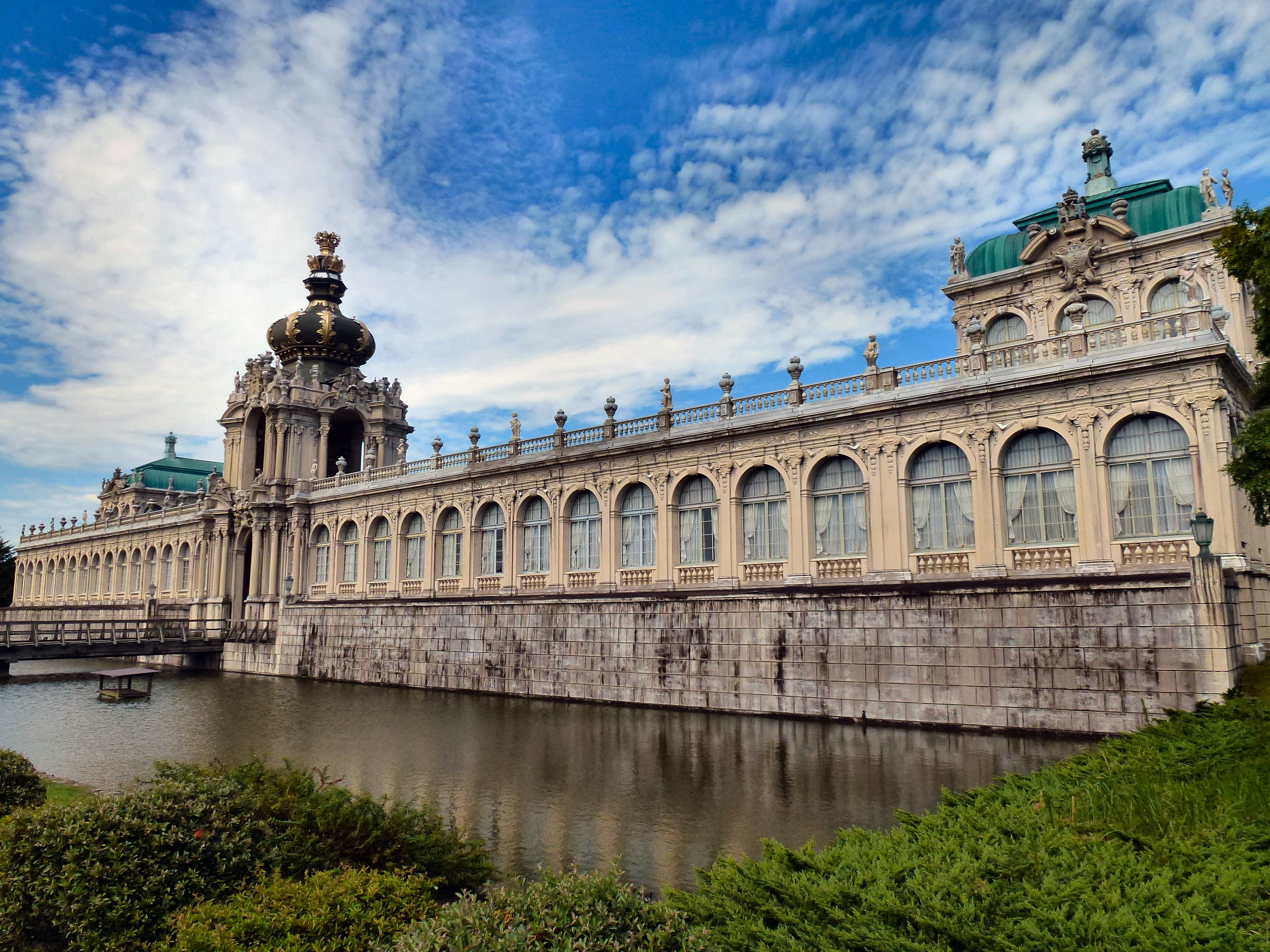 Replica of the Zwinger palace in Dresden in the Arita Porcelain Park in Arita, Japan